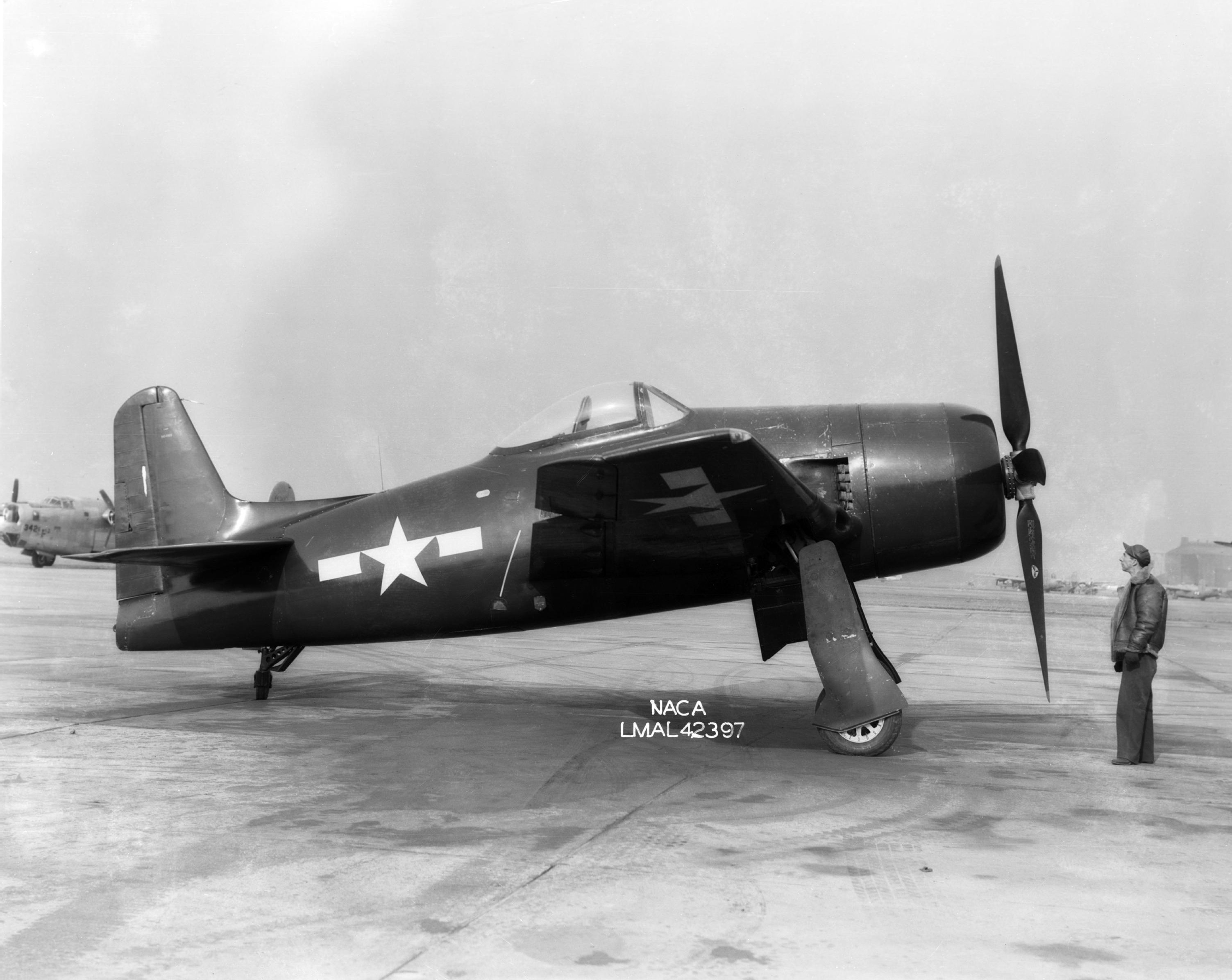 A U.S. Navy Grumman XF8F-1 Bearcat prototype at the NACA Langley Research Center on 5 February 1945.